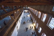 Visitors peruse an exhibit in the main hall of Pioneer Works. In the 19th century, large machines were built and repaired in the vast space.